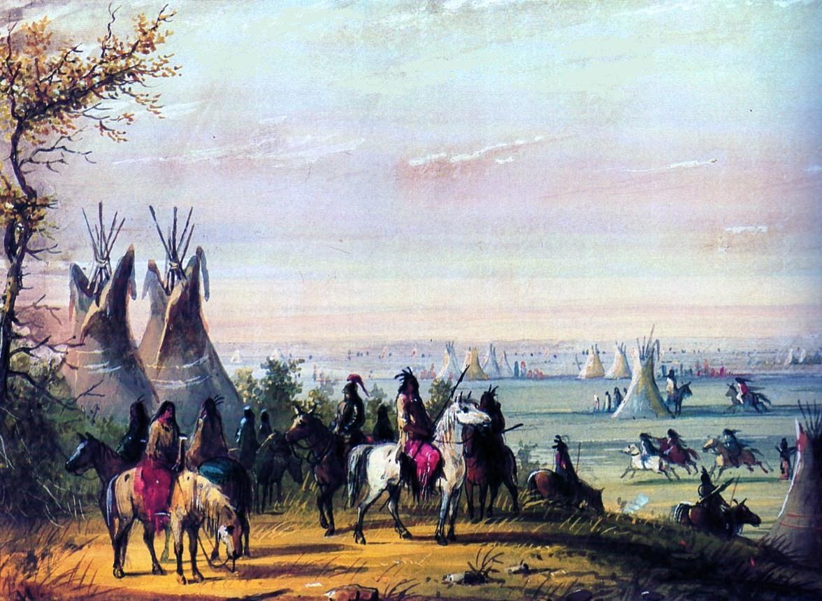 The last great rendezvous of fur traders, Indians and trappers on the Green River banks